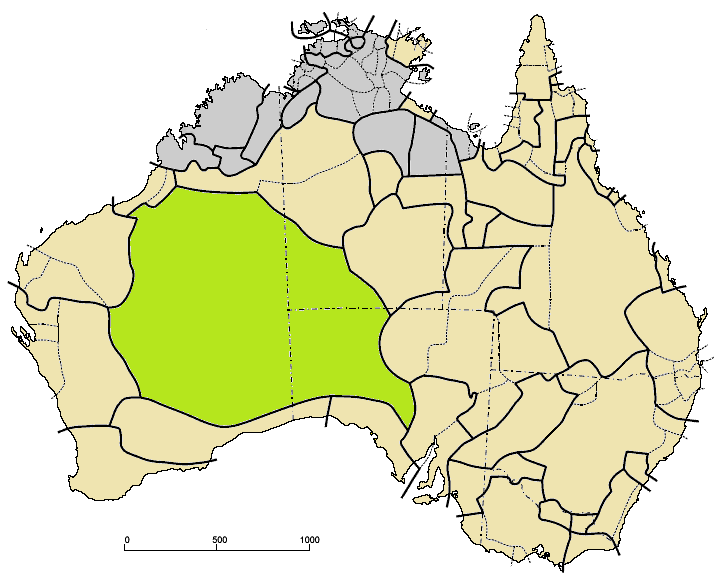 Wati languages (green) among other Pama–Nyungan (tan)